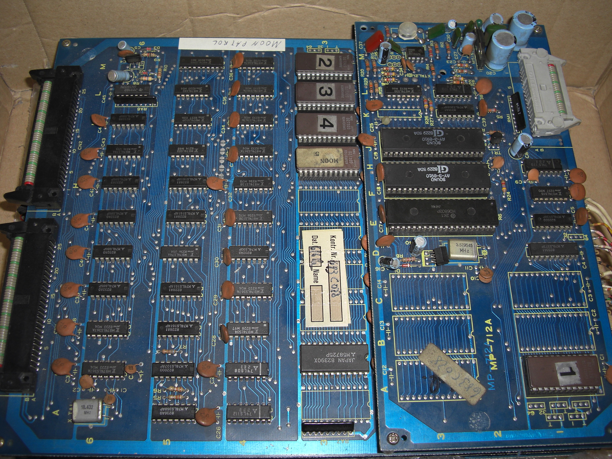 Photo of top of PCB stack from arcade game "Moon Patrol" by IREM. Photo von oben des Platinen-Stacks des Arcade-Spiels "Moon Patrol" von IREM.